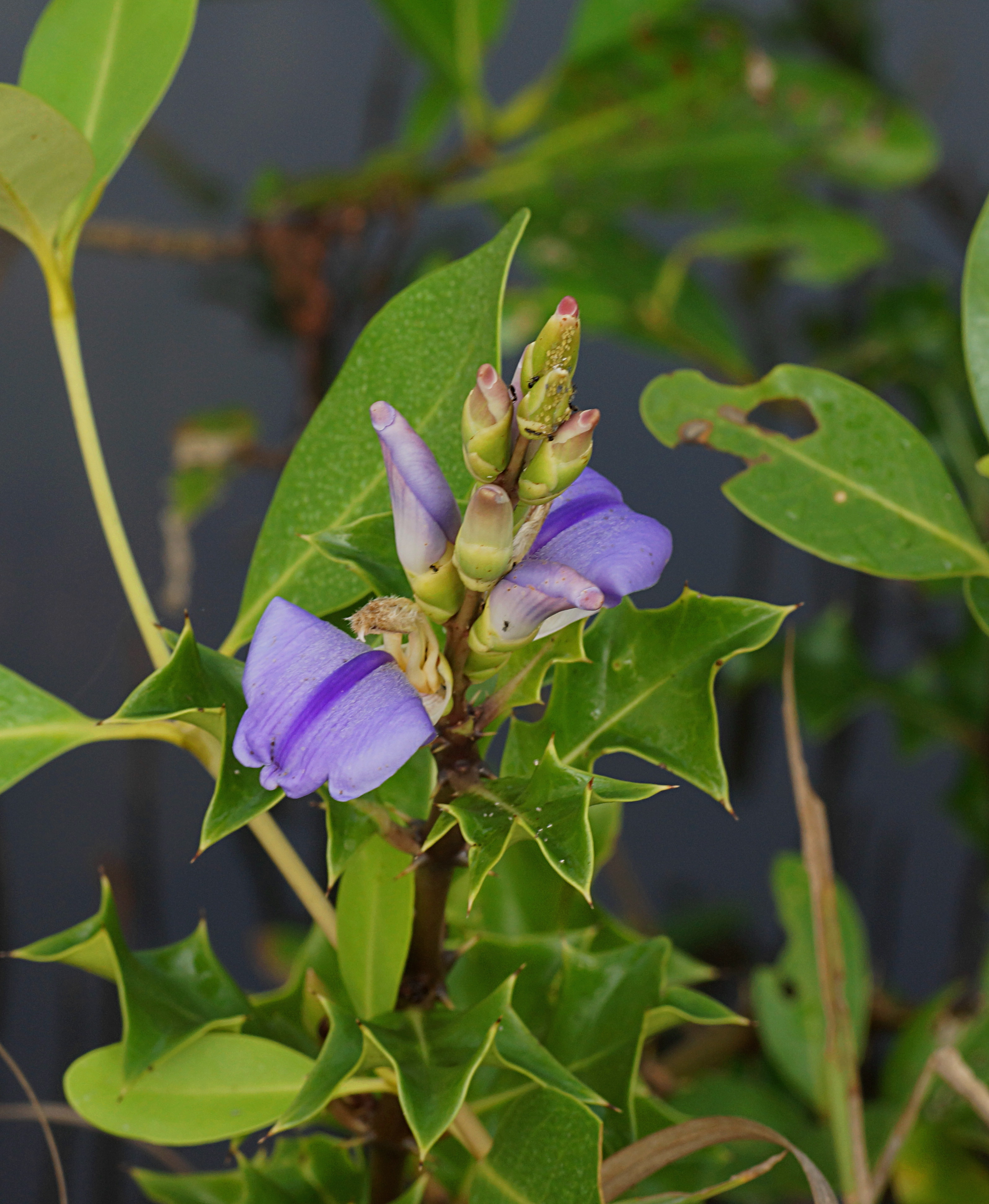 Acanthus ilicifolius (common names Holly-leaved acanthus, Sea Holly, and Holy Mangrove) is a species of plant in the genus Acanthus, native to India and Sri Lanka.